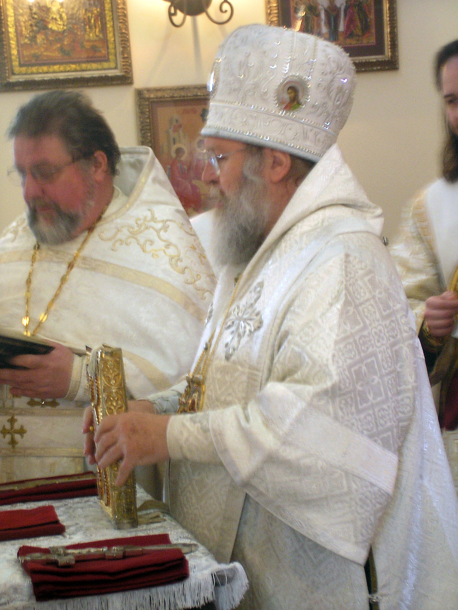 The priest (in this photo, a bishop) makes the Sign of the Cross with the Gospel Book over the antimension after the latter has been folded at the end of the Divine Liturgy. (Apparently St. Andrew's Russian Orthodox Church, Lealman, Florida, based on coordinates.)